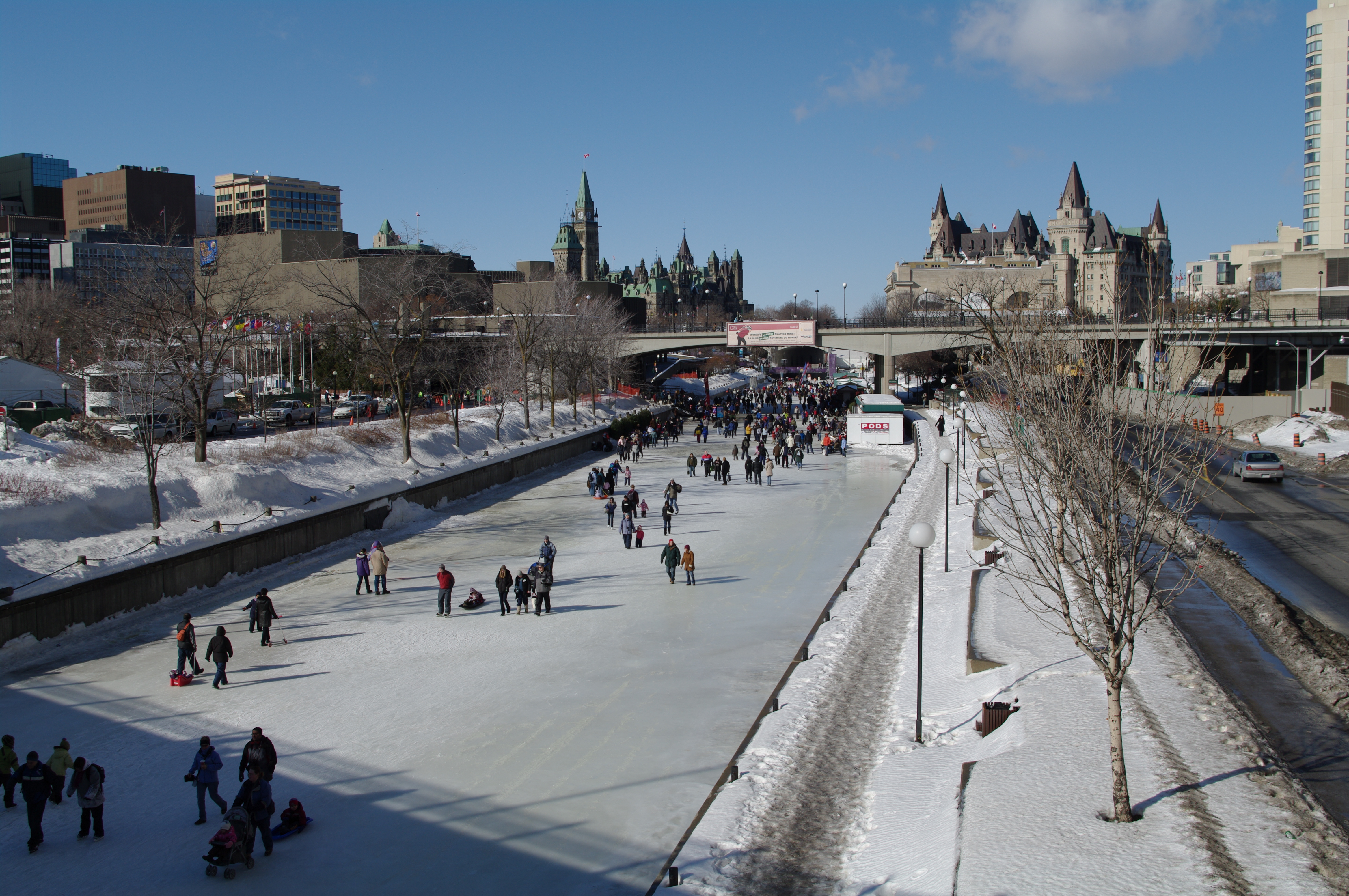 unmodified file from Pentax K20 DSLR. The frozen canal providesa festive atmosphere in this historic part of Ottawa.